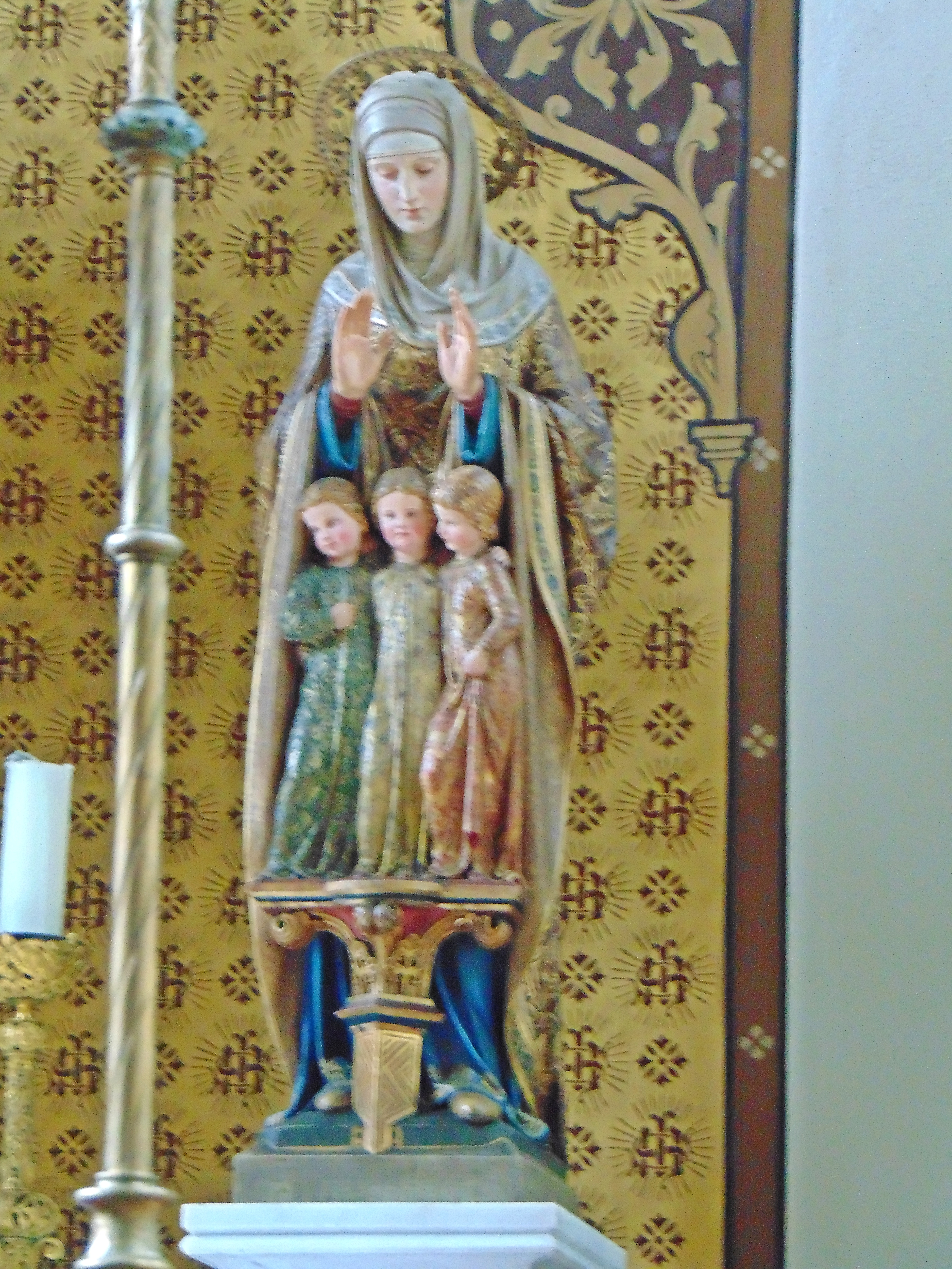 St. Sophia mit ihren 3 Kindern Fides Spes und Caritas, Statue, um 1870, Hauskapelle auf Schloss Löwenstein, Kleinheubach